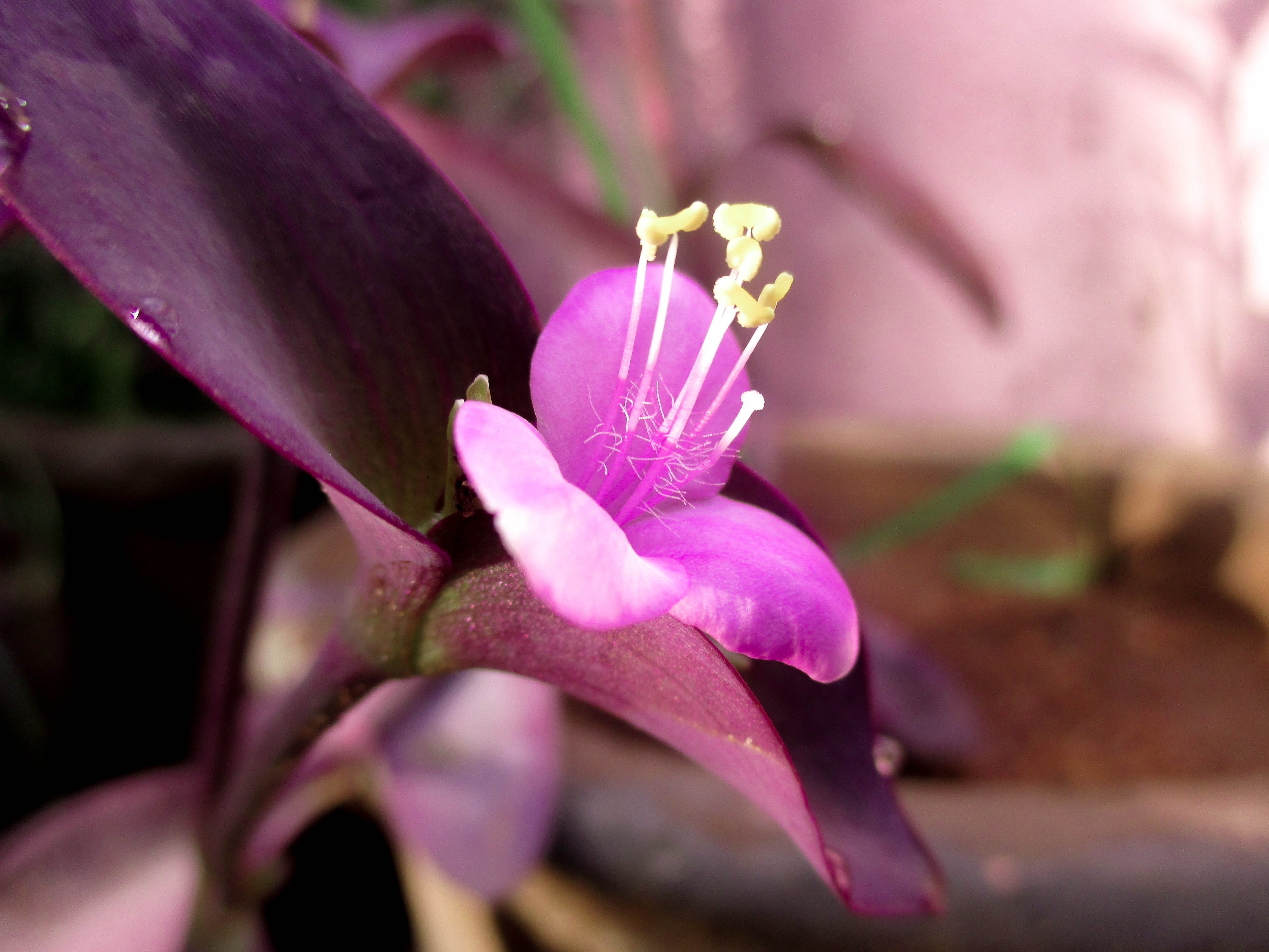 This flower taken at KTC nagar .